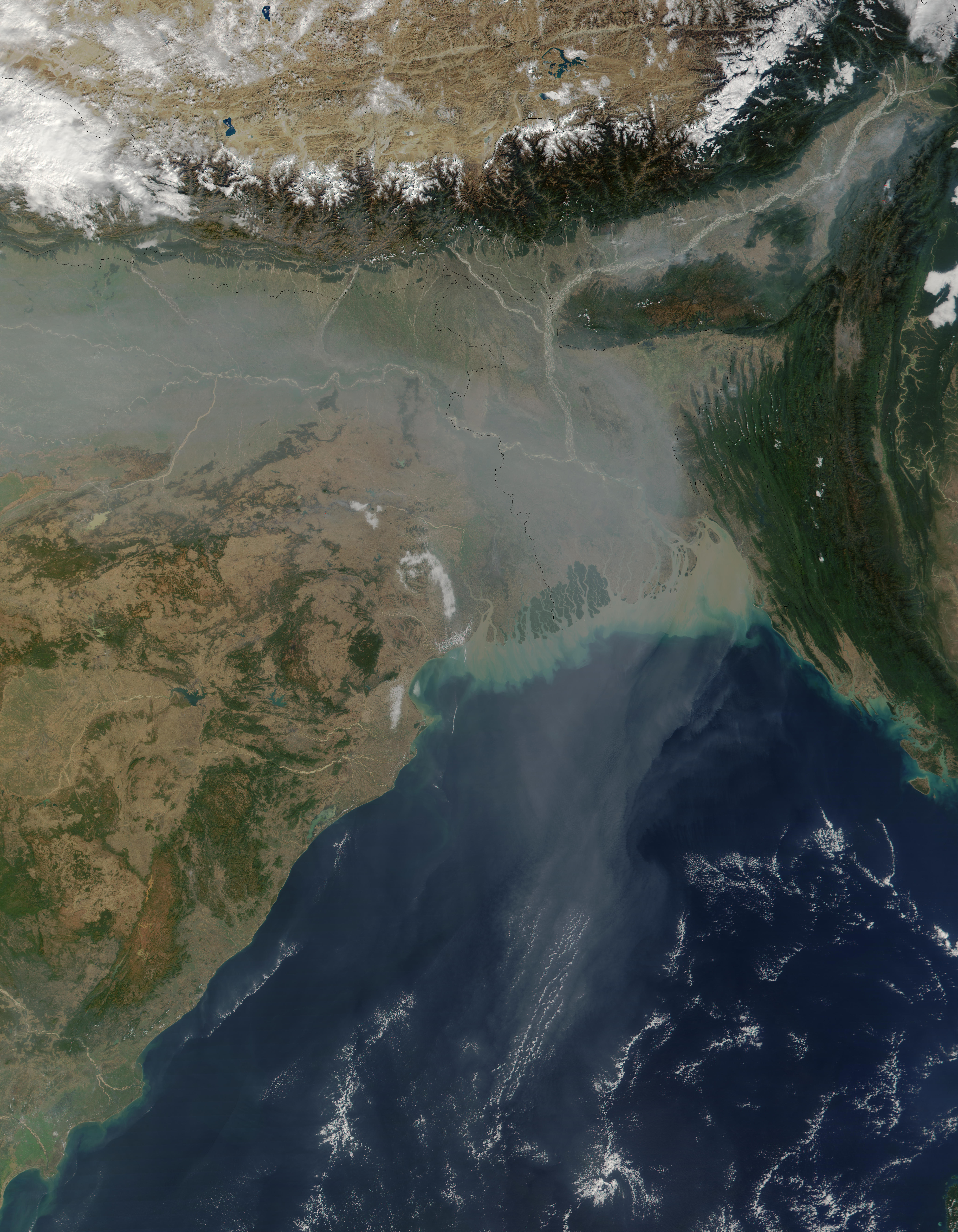 Poor air quality persists over India (left) Bangladesh (center) and Myanmar (right). This image from January 14, 2002, shows a thick blanket of pollution butting up against the Himalayas (arcing across the top of the image) and stretching out into the Bay of Bengal (bottom). Tan-colored sediment fills the Bay through the Mouths of the Ganges River (image center). North of the Himalayas, the skies are clear over the Tibetan Plateau.